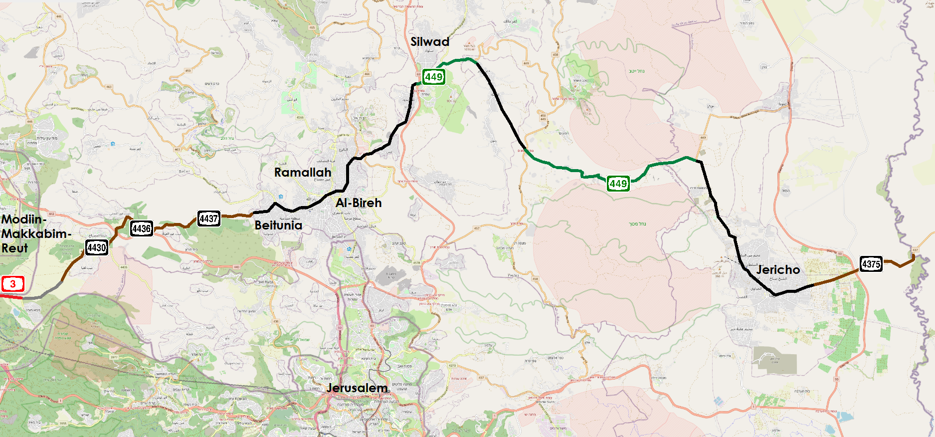 Map of the now declassified segment of Highway 3 in the West Bank, Palestine. Gray - Closed off (Cut by the Separation Wall) Black - Municipal Roadway Brown - Tertiary Level Roadway Green - Secondary Highway Red - Primary National Highway (non-declassified Highway 3)